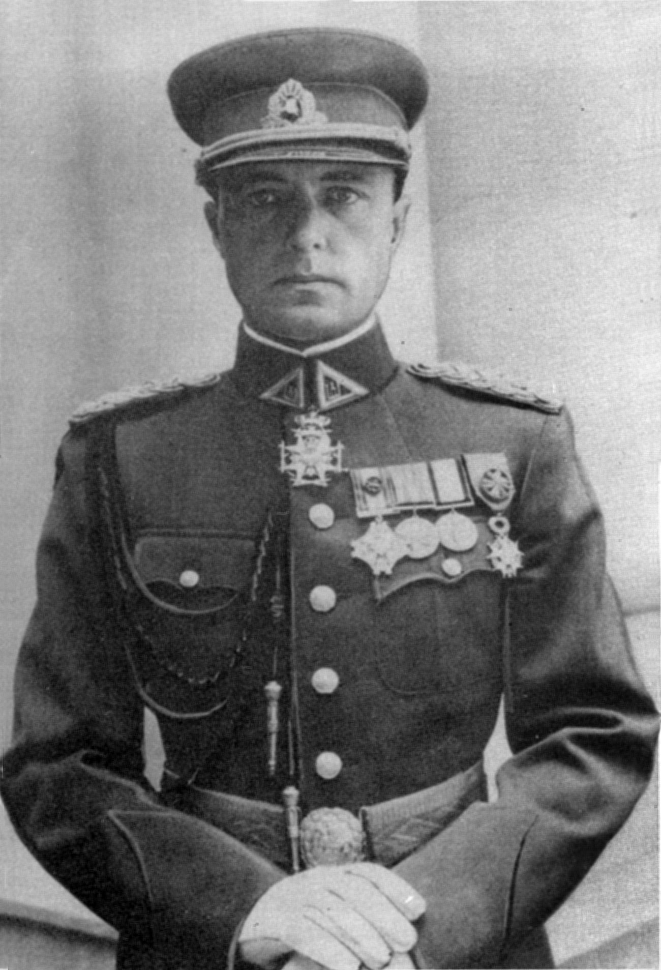 Aloyzas Valušis, Lithuanian military attache in Warsaw, Poland